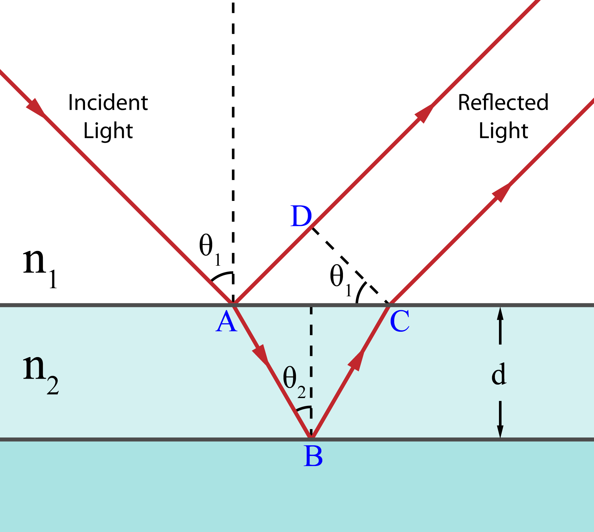 A wave of light reflecting off the upper and lower boundaries of a thin film.